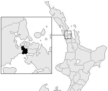 The boundaries for the Eden electorate in relation to the rest of New Zealand (1928-38).